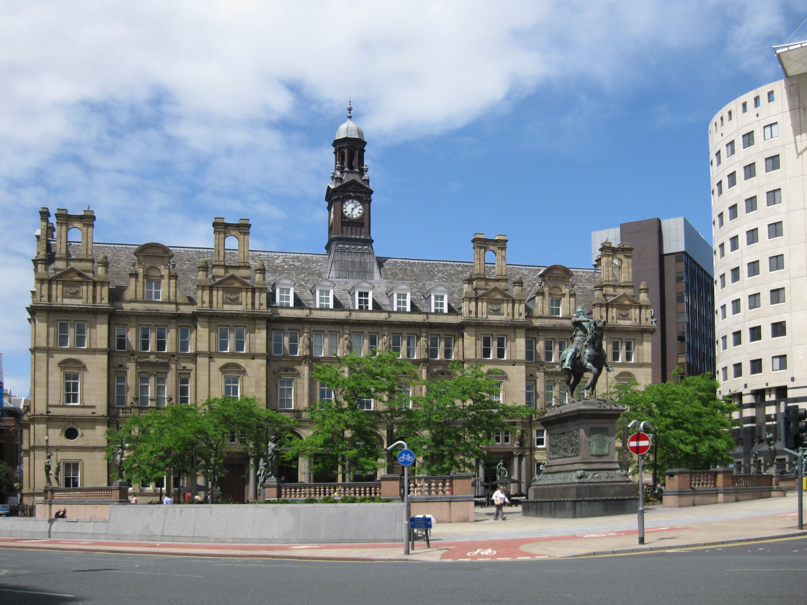 City Square, Leeds. Showing the former General Post Office, the statue of the Black Prince and the nymphs.